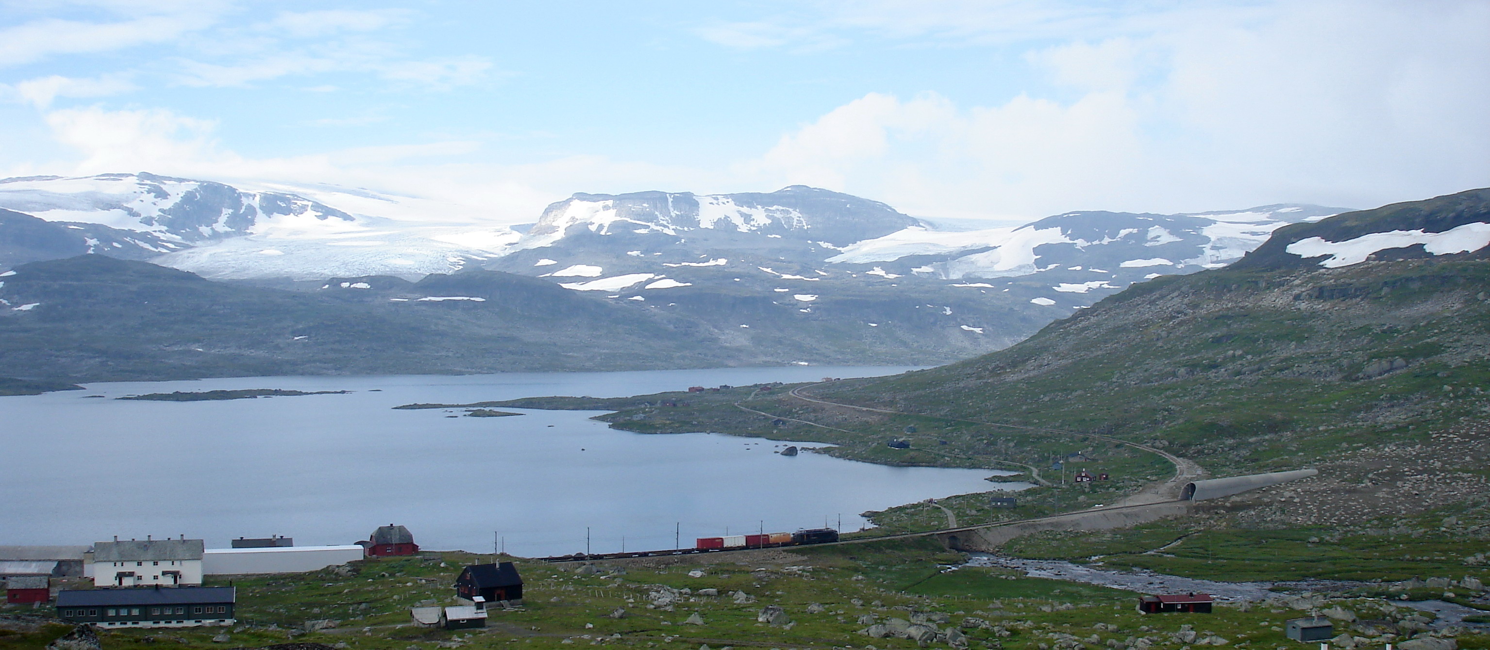 Freight train on Bergensbanen about to enter the Finse Tunnel, Finse, Norway. Author: Michaël de Vos